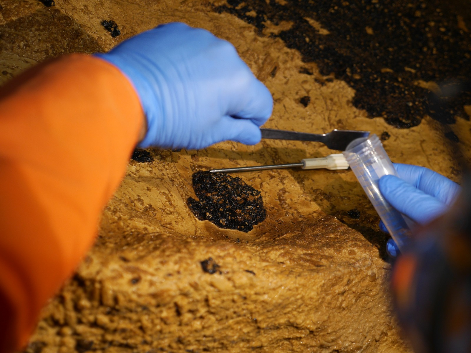 Microbiological sample